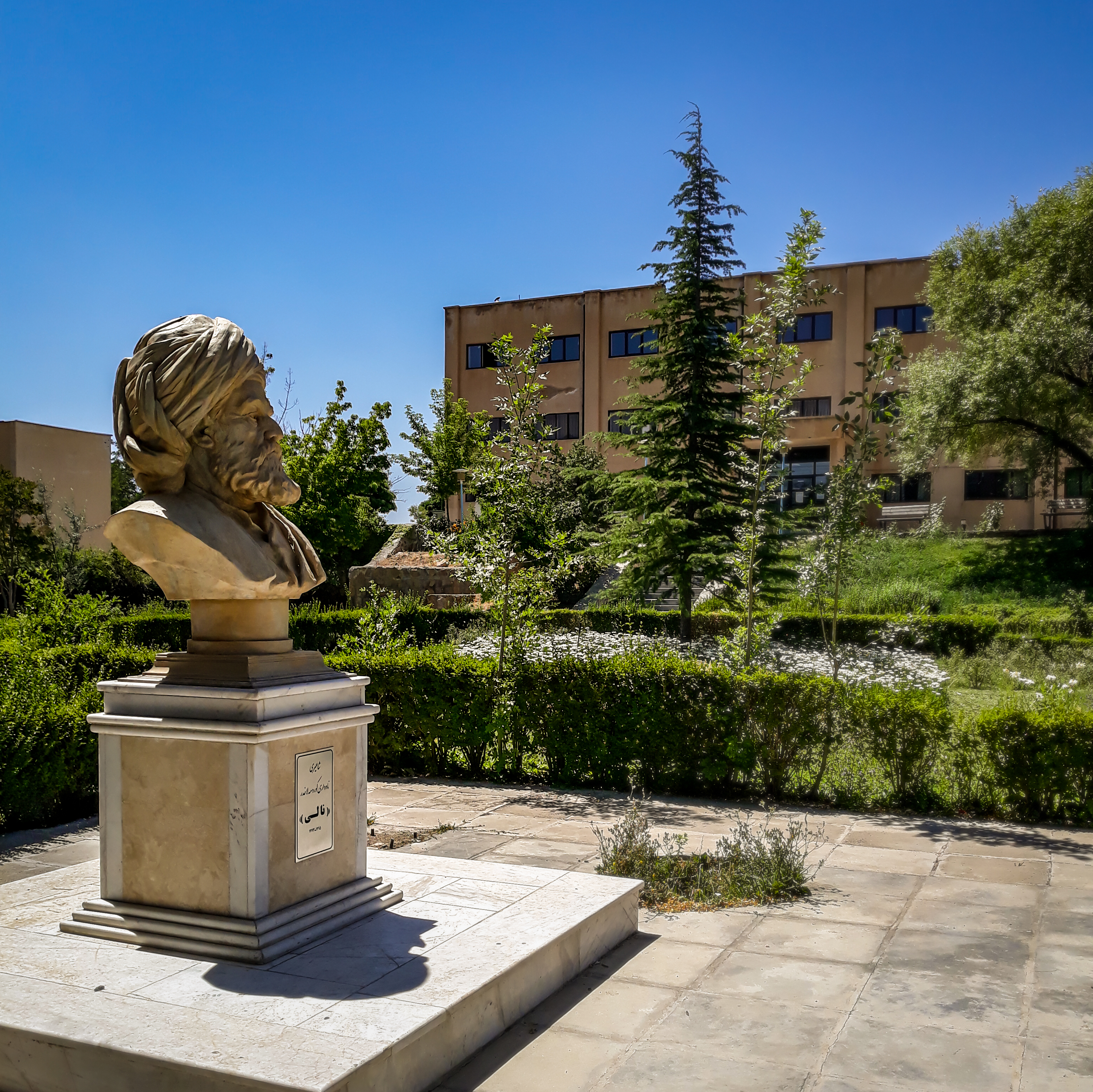 Statue of Nali in Univeraity of Kurdistan (Iran)